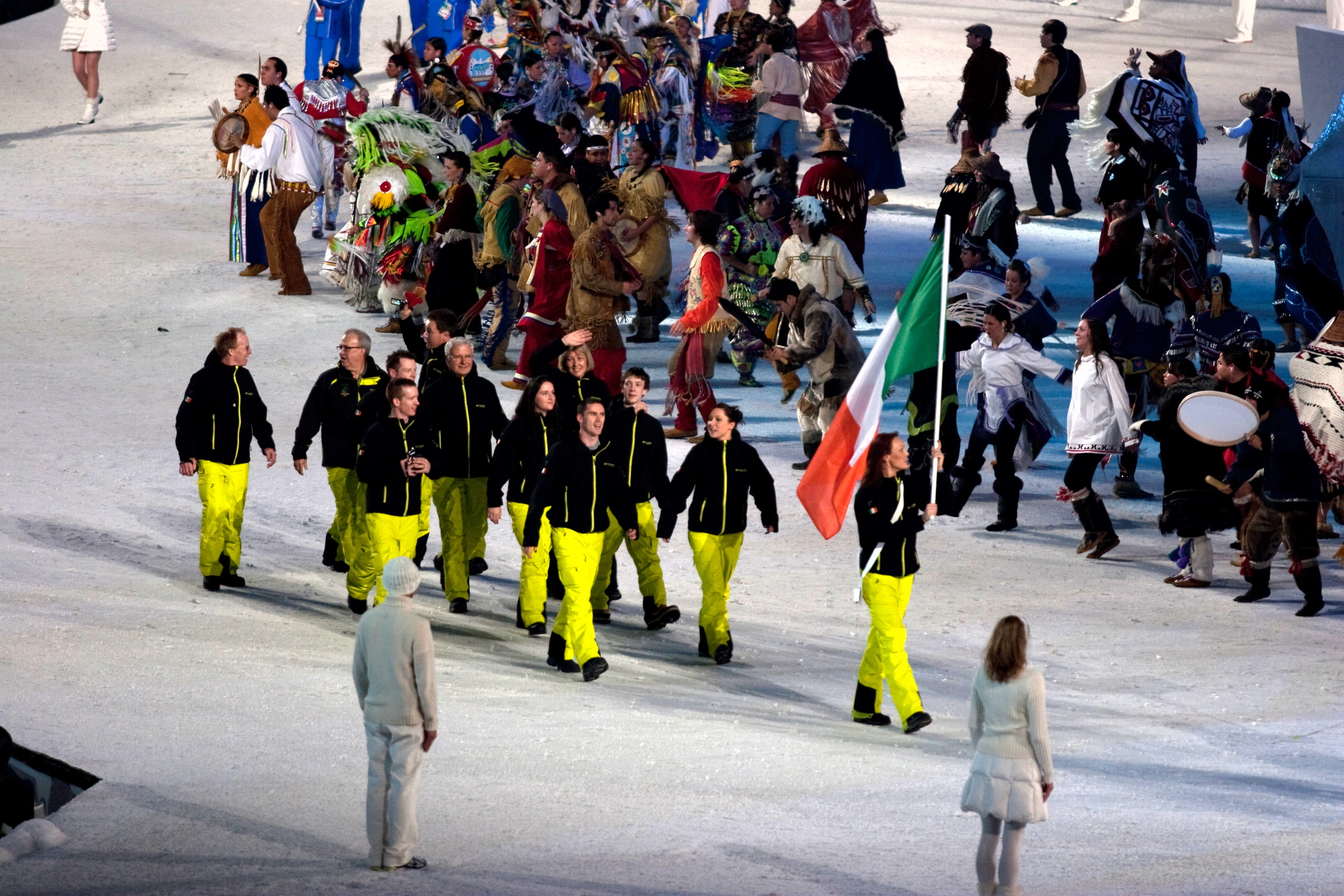 The athletes from Ireland entering the stadium at the opening ceremonies of the 2010 Winter Olympics